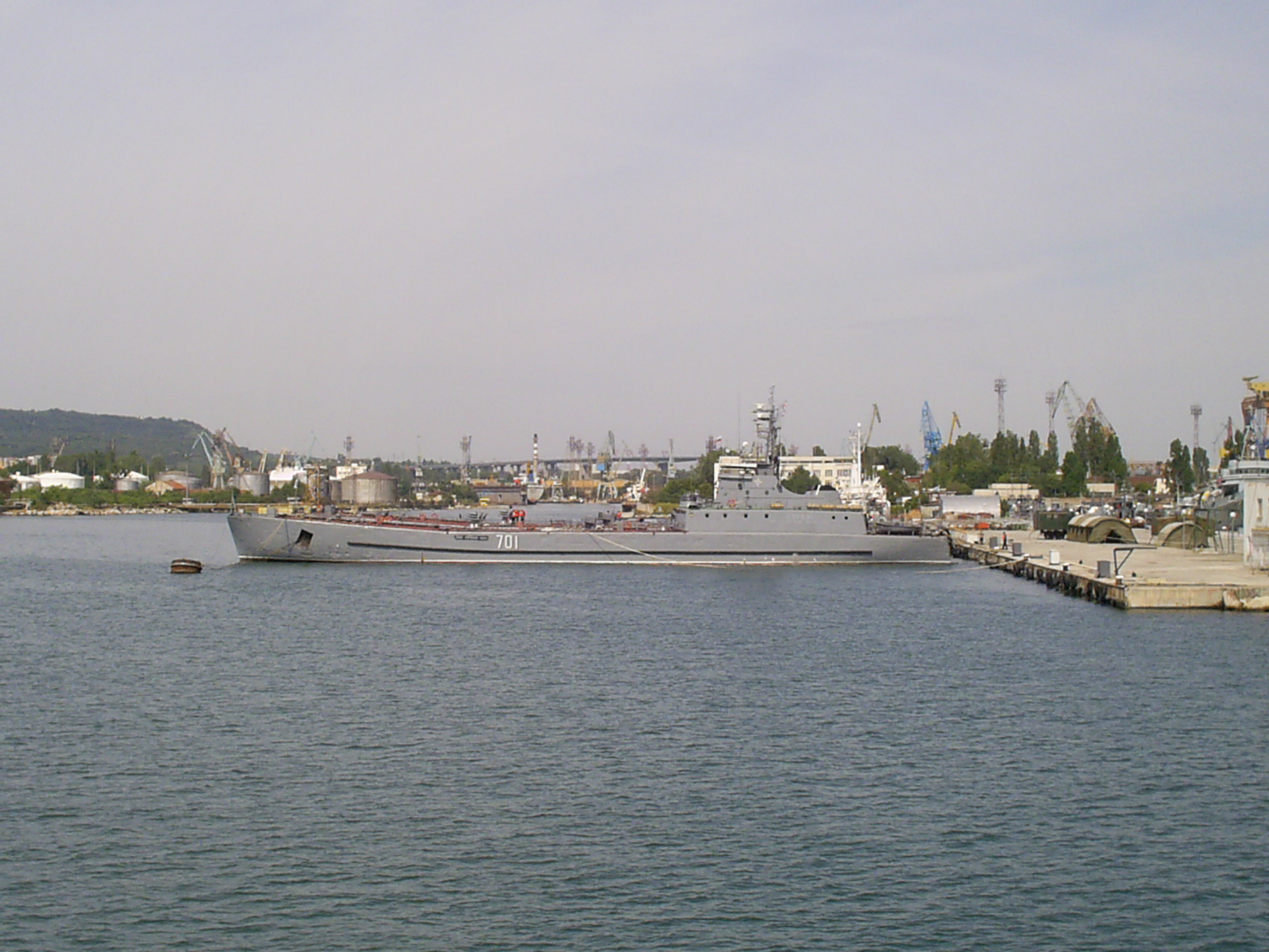 Bulgarian medium landing ship project 770MA Sirius in Varna.